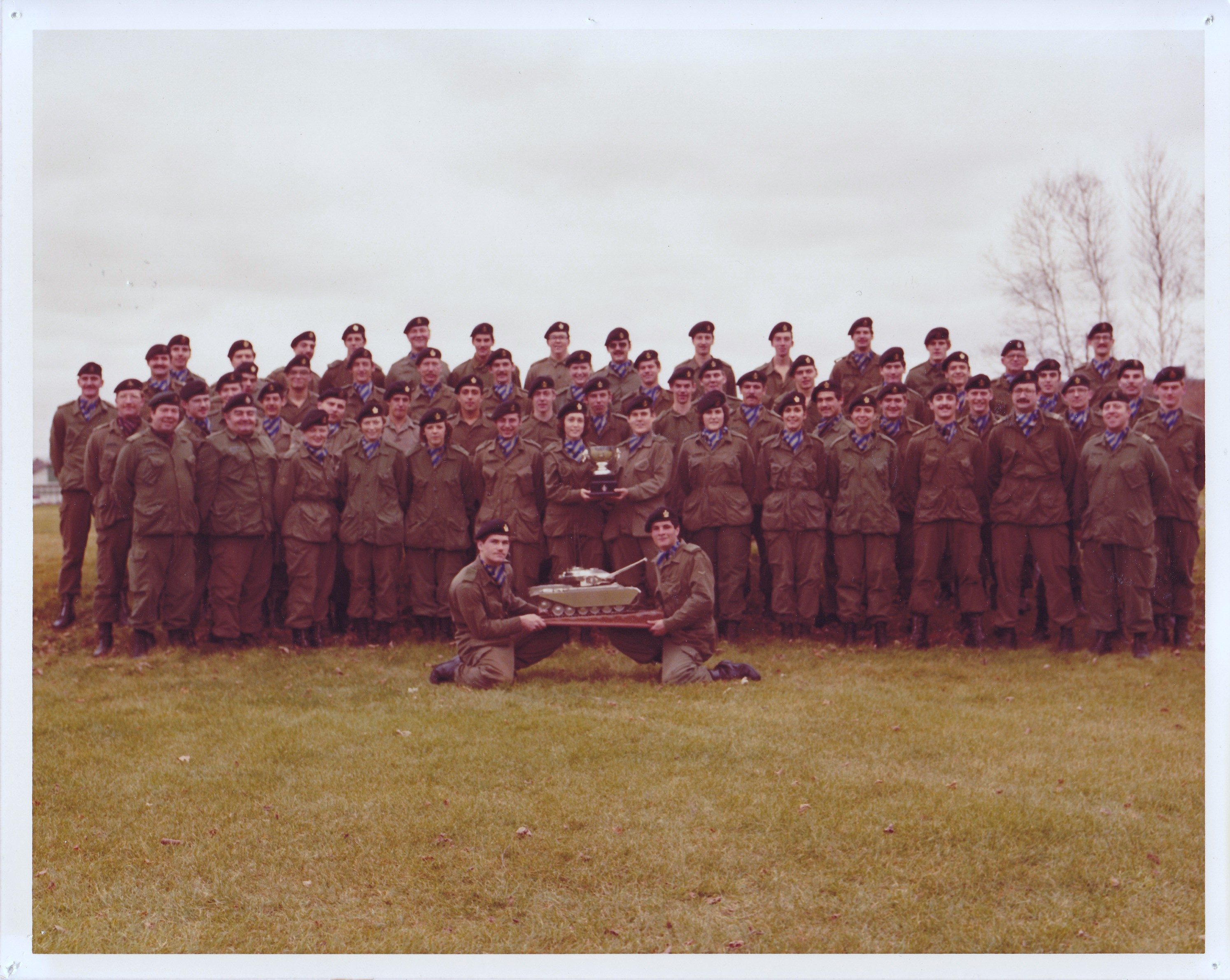 Worthington Trophy, Awarded to Le Régiment de Hull, Valcartier, 1979